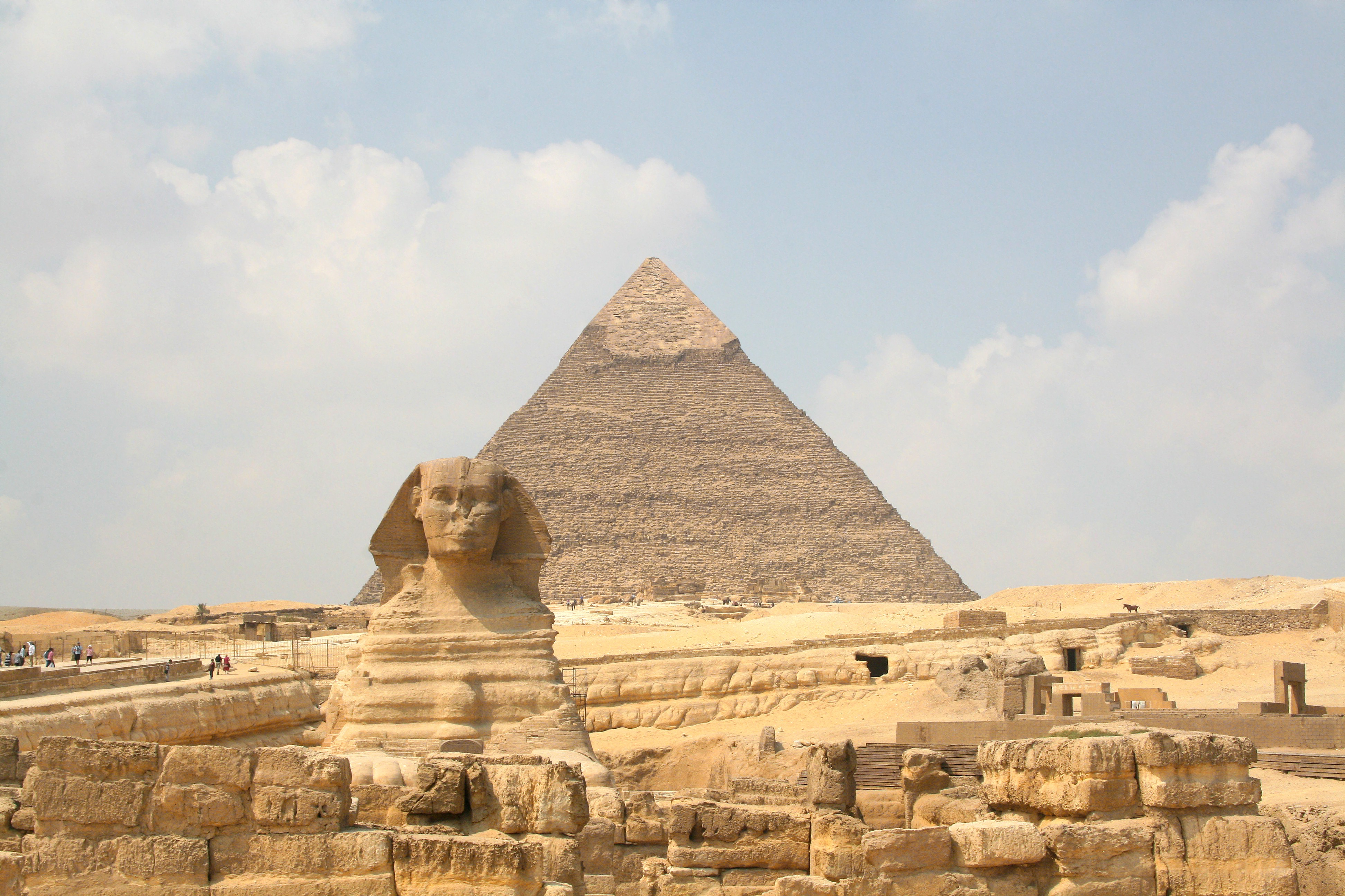 Great Sphinx of Giza, Giza, Egypt